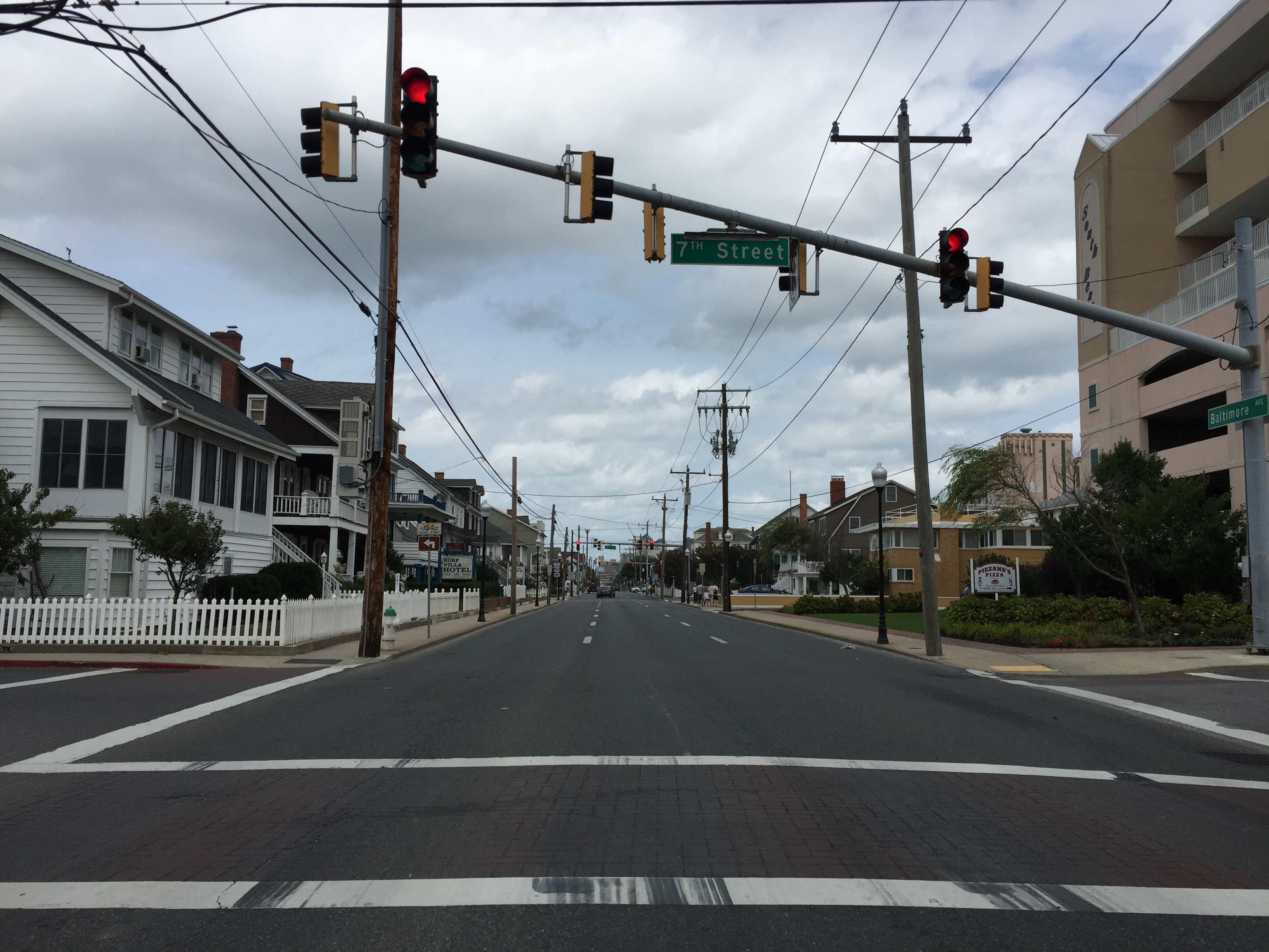 View north along Maryland State Route 378 (Baltimore Avenue) at Seventh Street in Ocean City, Worcester County, Maryland